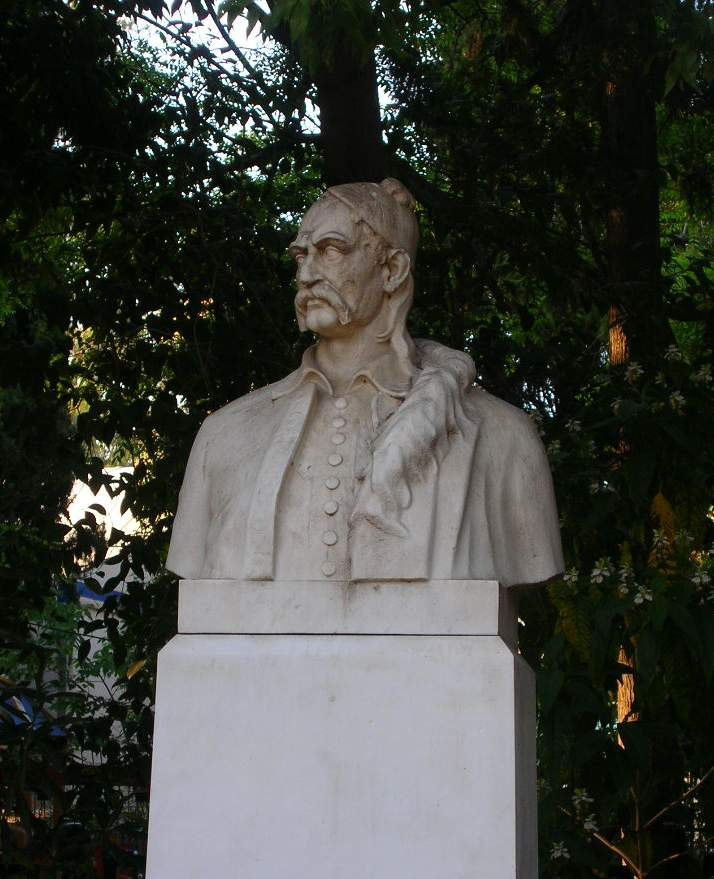 monument of Mayromixalis in Athens, own photo, Gepsimos 15:30, 14 May 2006 (UTC)